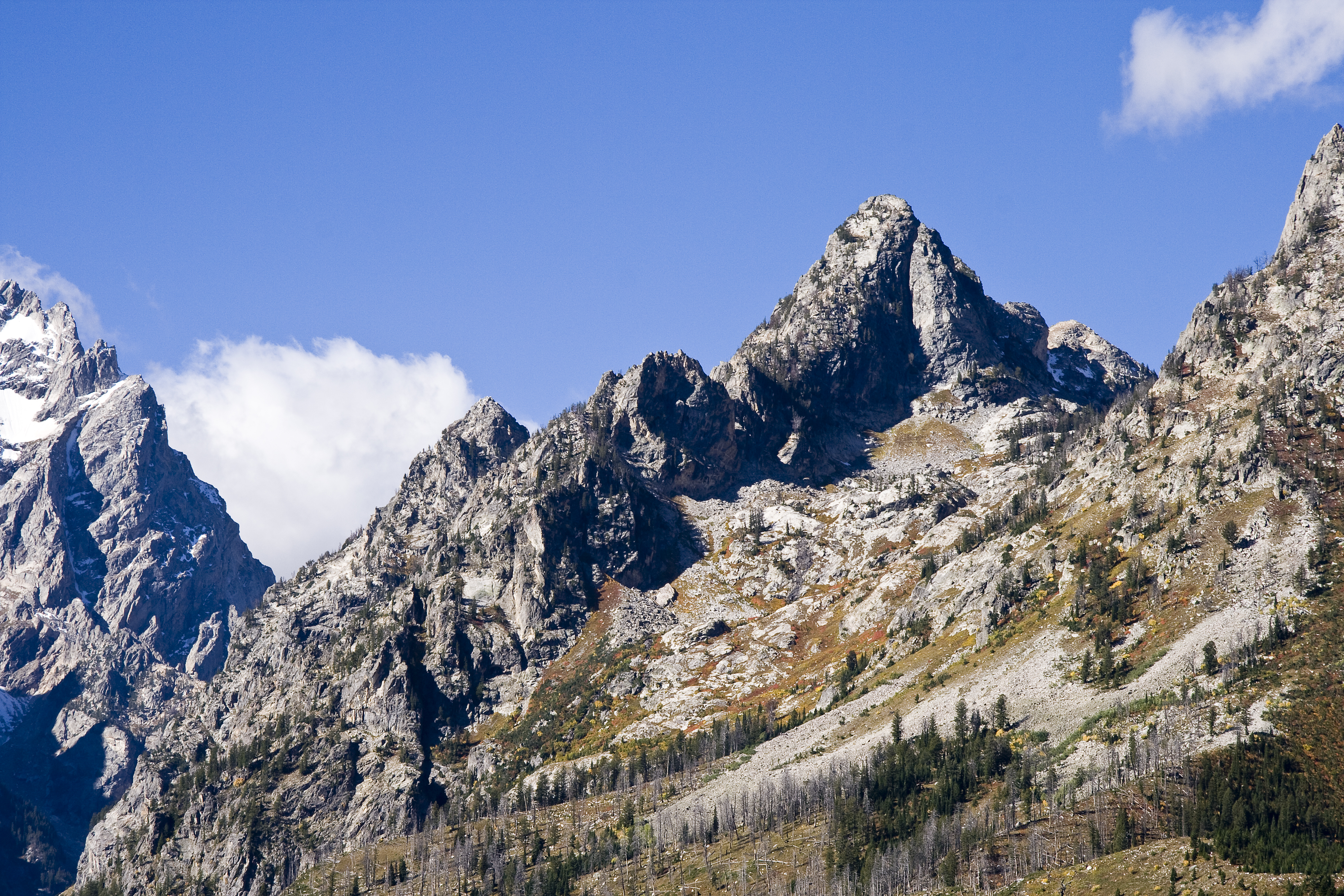 Symmetry Spire (right) with Hanging Canyon to its right, Storm Point (left) with Grand Teton partly visible far left, Grand Teton National Park, Wyoming, USA